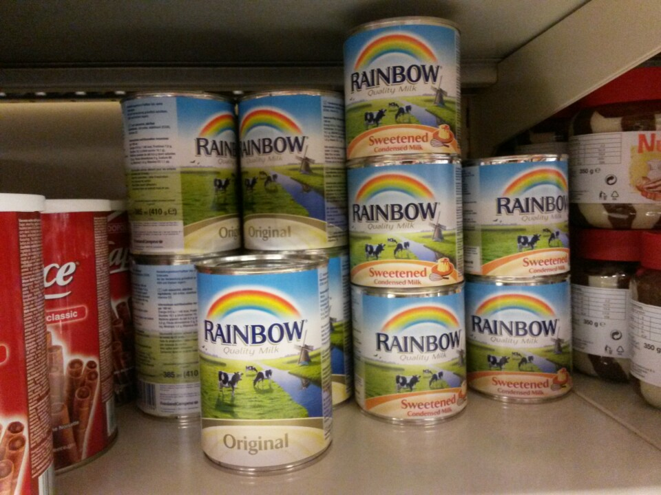 Evaporated and condensed milk